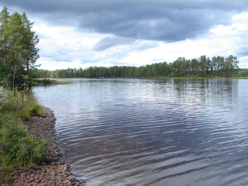 Lake Malåträsket, western part, with an esker to the right.